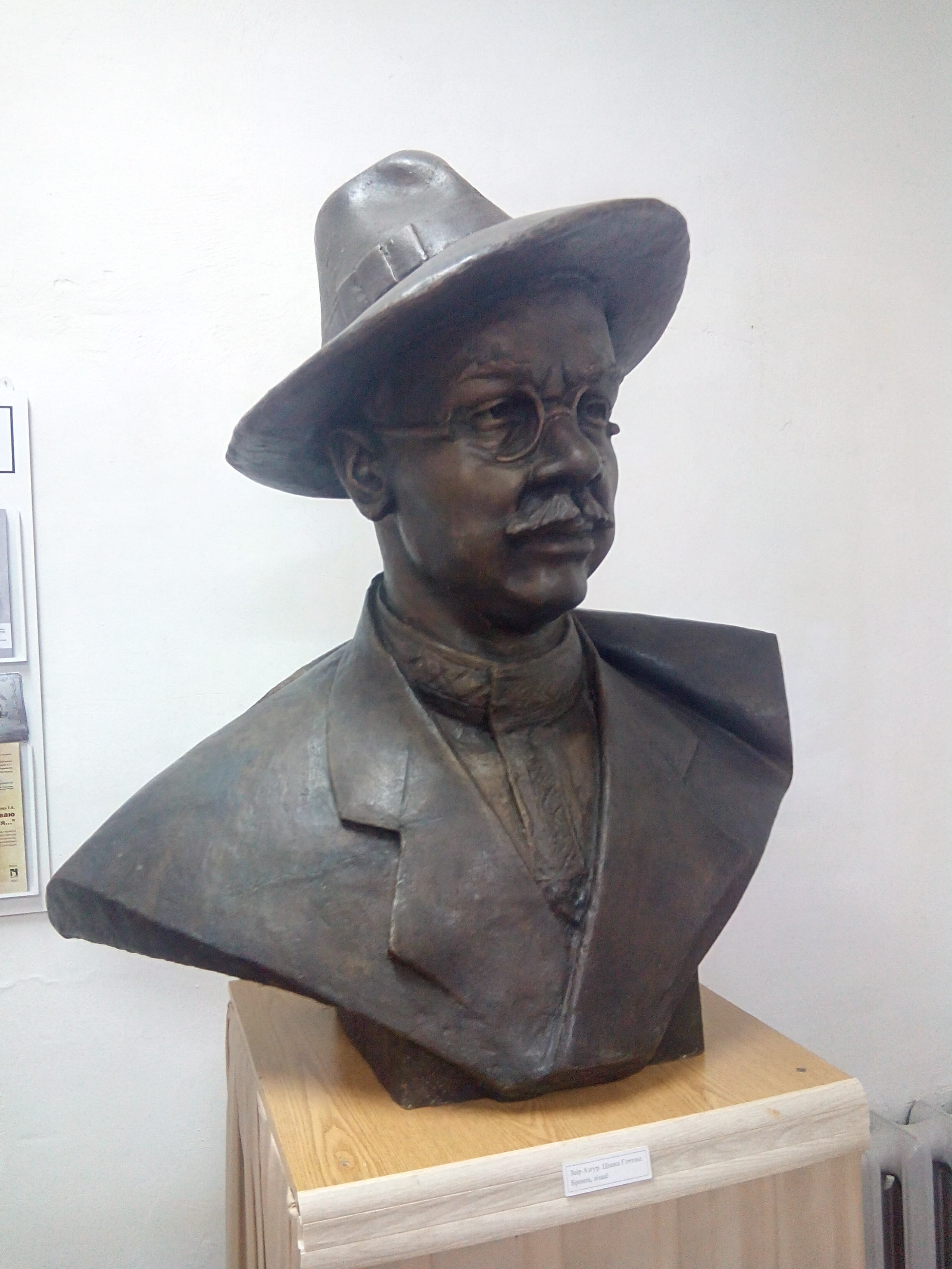 Bust of Tsishka Hartny in the local history museum in Kapyl, Minsk Region, Belarus